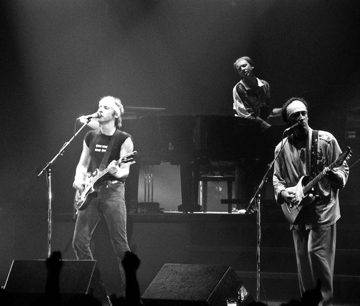 Dire Straits 1985 linup: Mark Knopfler - vocals, guitar; Alan Clark - keyboards; Jack Sonni - vocals, guitar (not pictured: John Illsley or Terry Williams "Brothers In Arms tour" 10th May 1985. Belgrade, Yugoslavia (now Serbia)